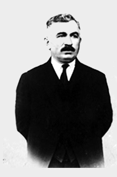 Sulejman Delvina, Prime Minister of Albania